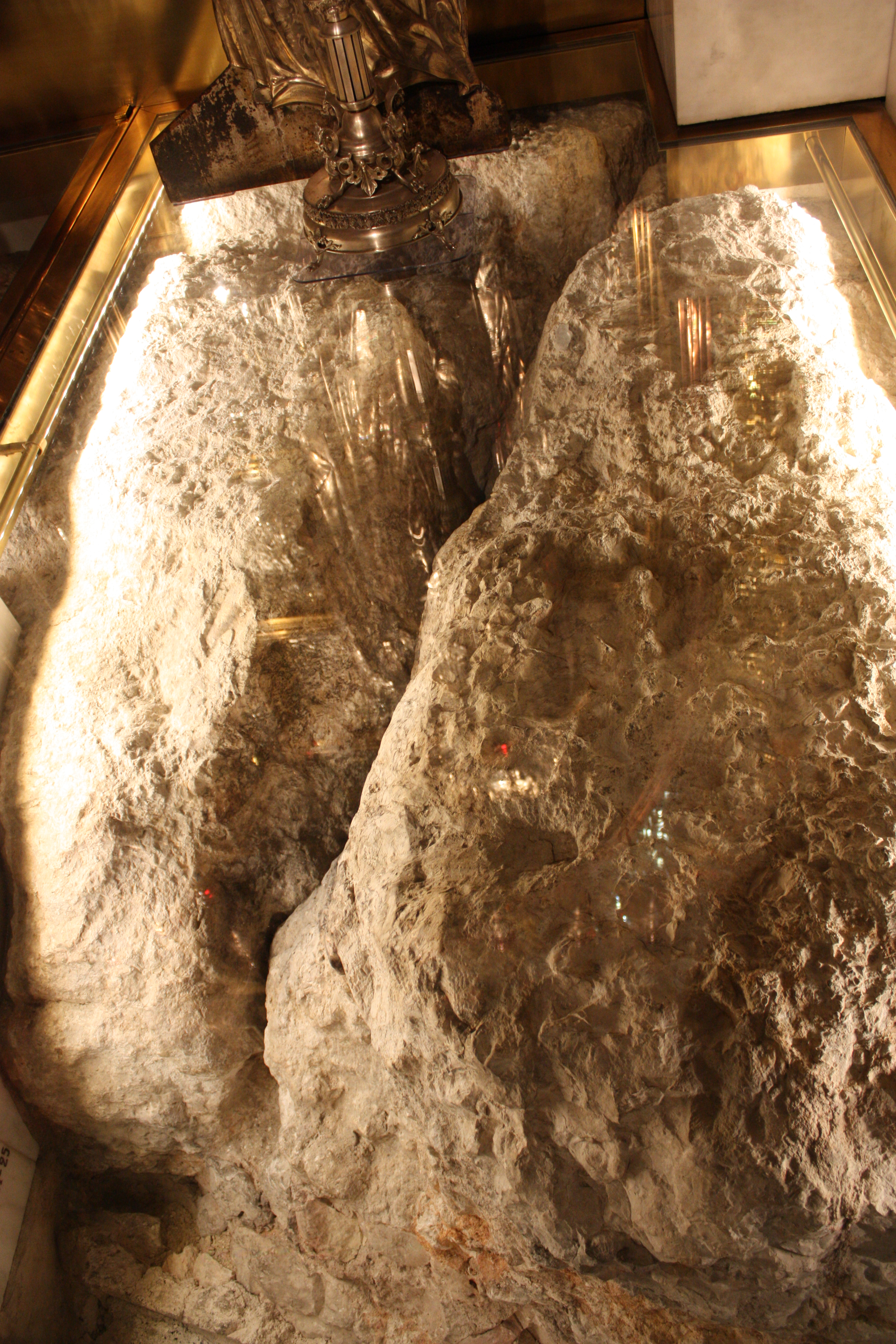 Calvary stone near the 12th station of Via Dolorosa in Golgotha in the Holy Sepulchre, Jerusalem.